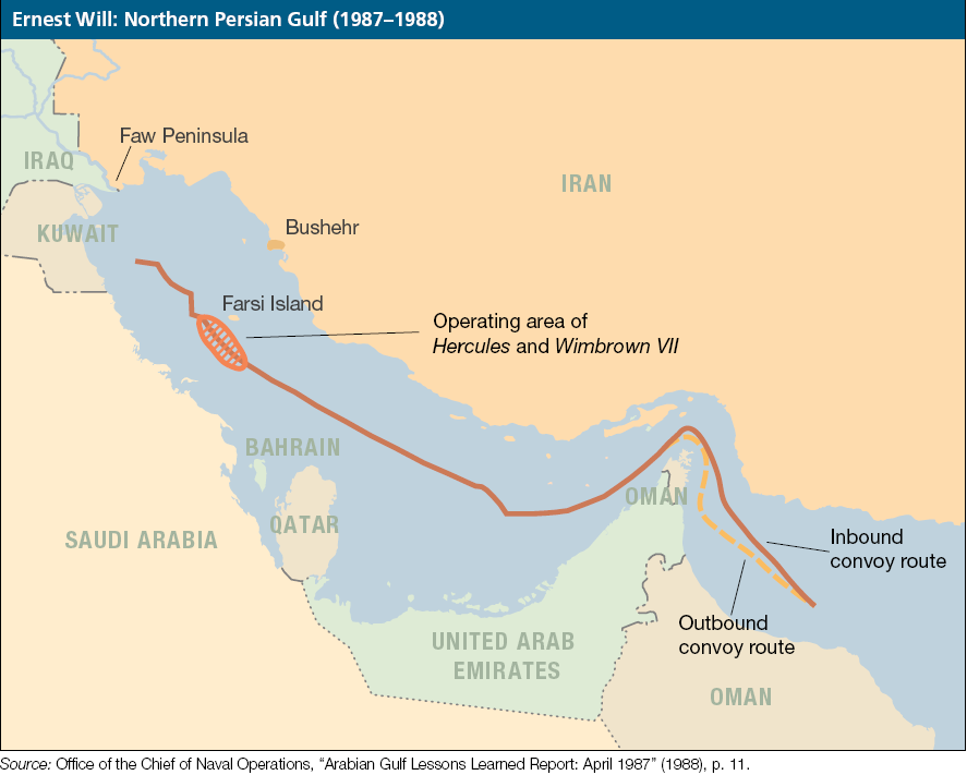 Map shows routes of in- and outbound convoys under protection of warships of the US Navy while the tanker war (dubbed Operation Earnest Will)